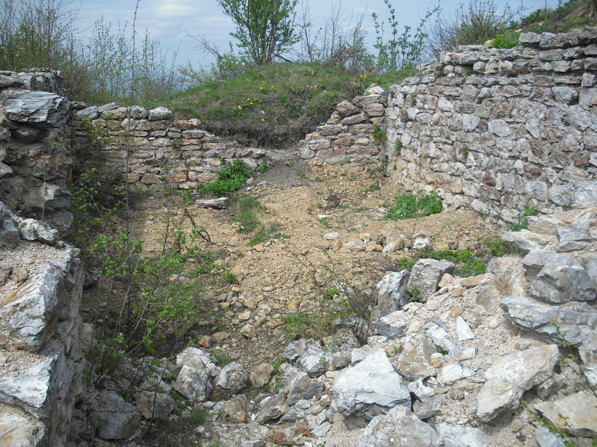 View on Gradina Fortress on Jelica near Čačak, Serbia.